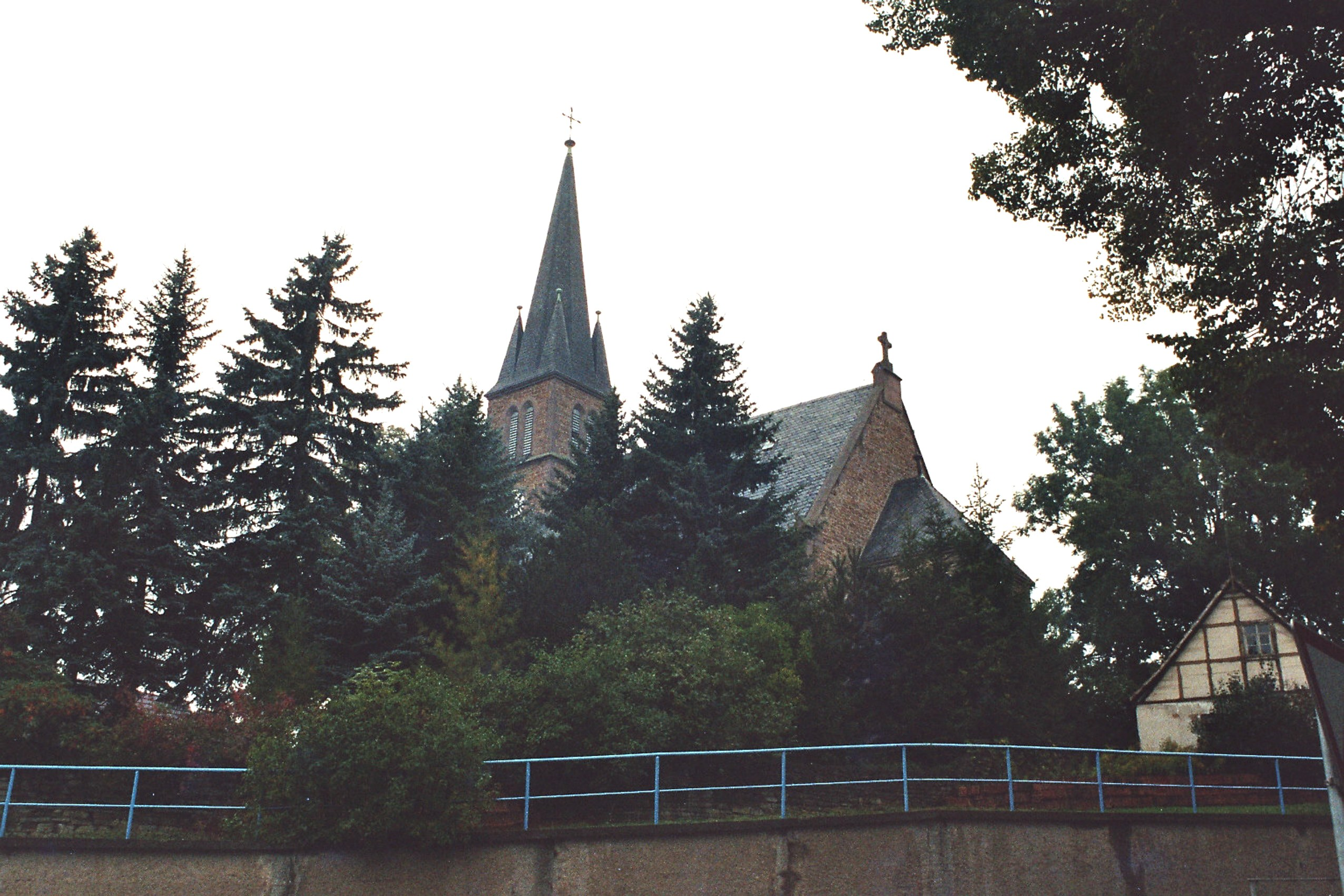 Gonna (Sangerhausen), the Saint Margaret Church This is a photograph of an architectural monument. 84003